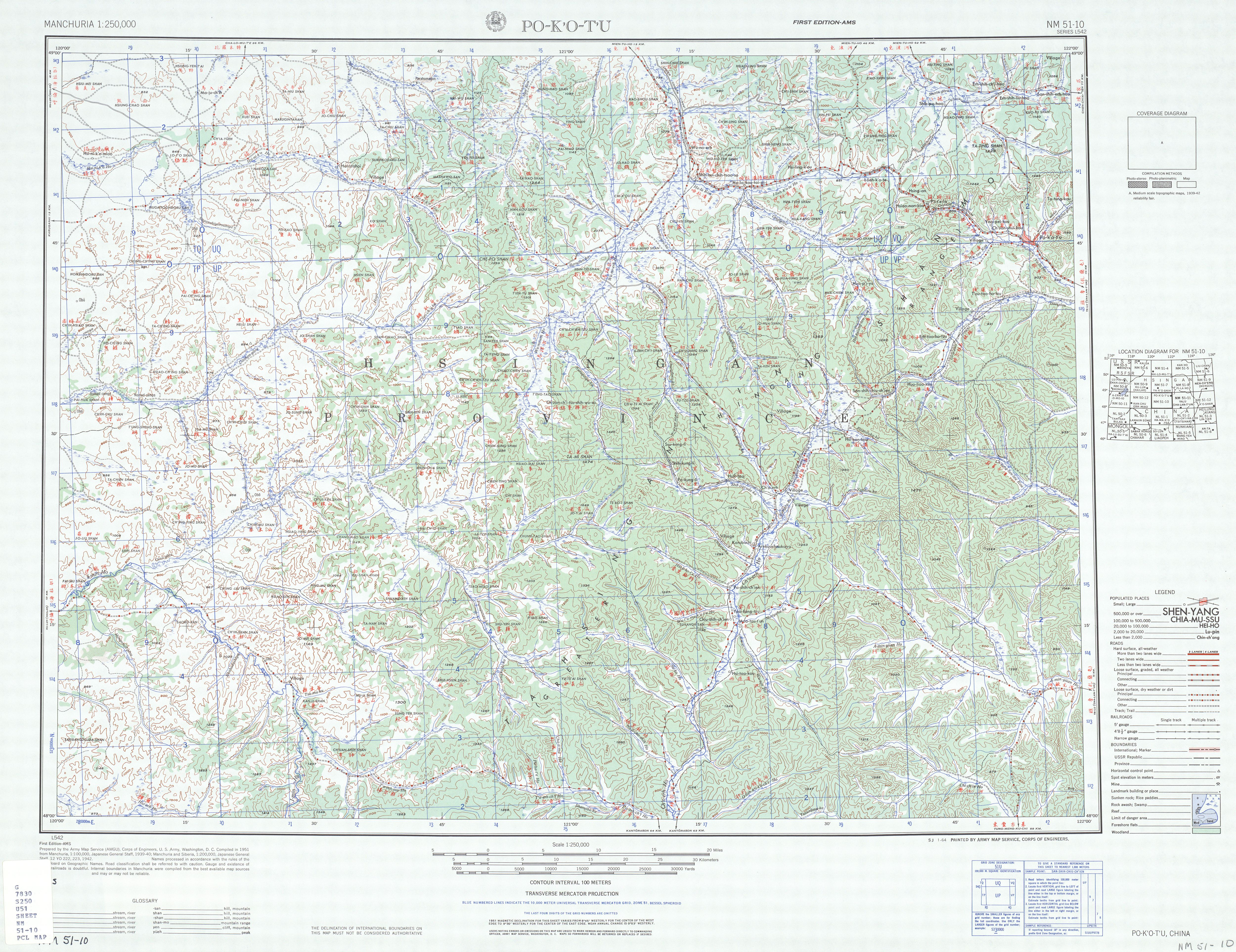 Manchuria AMS Topographic Maps